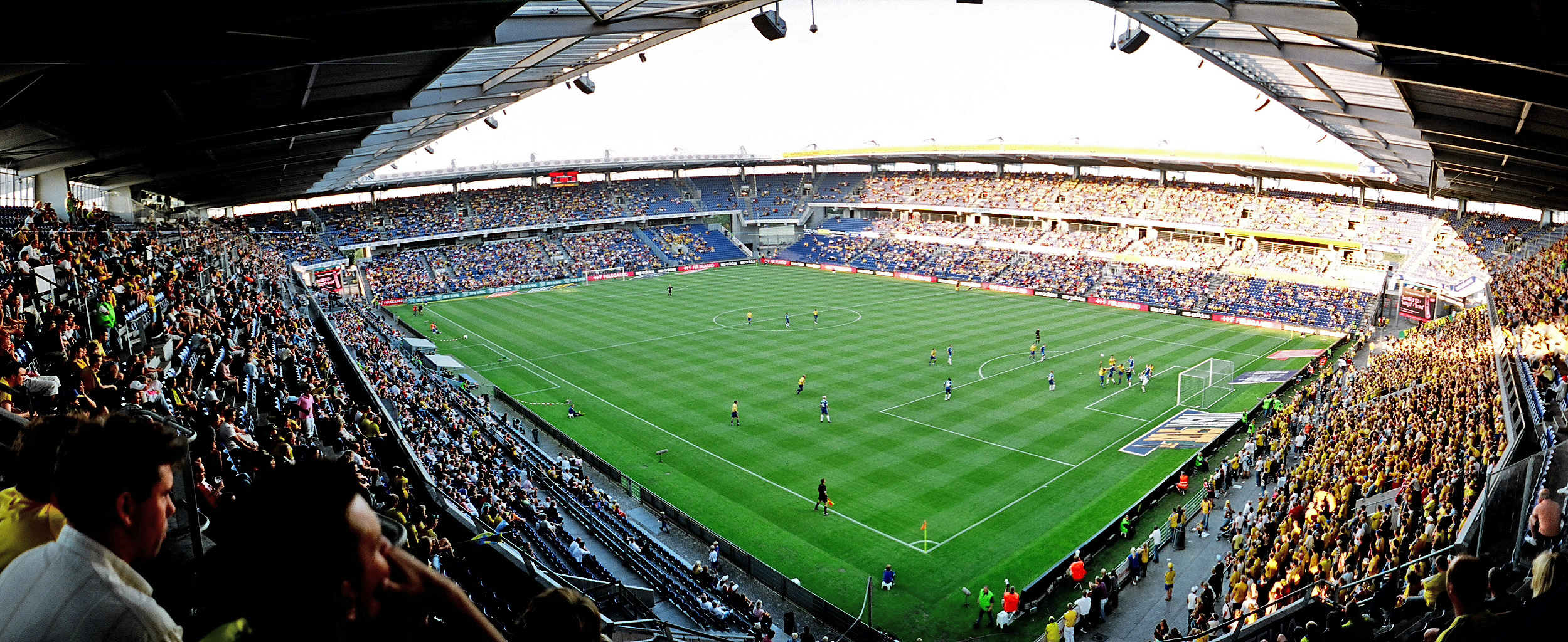 Brøndby IF - AC Horsens: 3-0. Just as this panorama is taken Thomas Rasmussen scores the second goal (43. minute) directly on a free kick. Match details: .